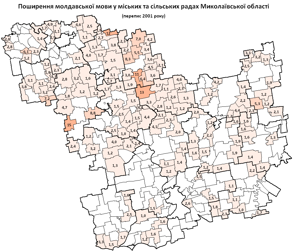 Percentage of moldovan native speakers in Mykolaiv oblast according to 2001 census